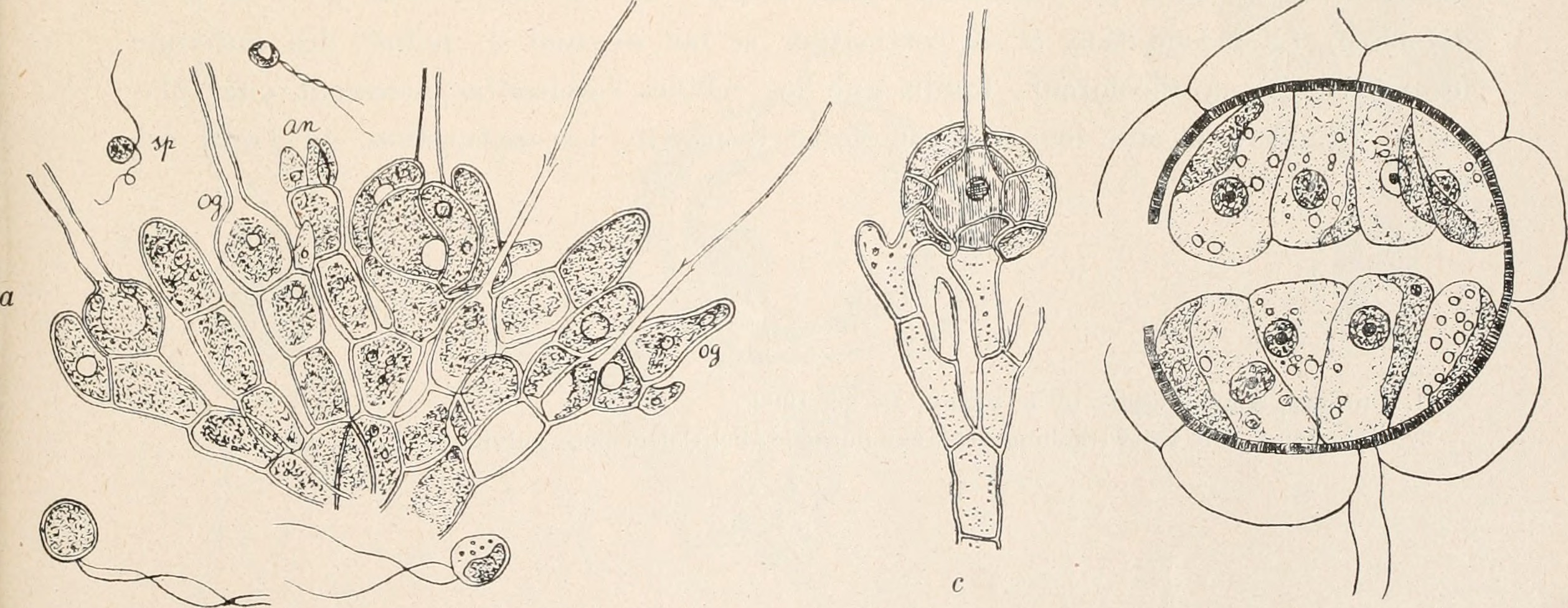 Coleochsete pulvinata Title: Album général des diatomées marines, d'eau douce ou fossiles : album représentant tous les genres de diatomées et leurs principales espèces Year: (190-?) ((190s) Authors: Coupin, Henri, b. 1868 Subjects: Diatoms Publisher: Paris : H. Coupin Text Appearing Before Image: Aphanochaete repens Text Appearing After Image: Coleochsete pulvinata VI. CHLOROPHYCE^ 3. Ulothrichales